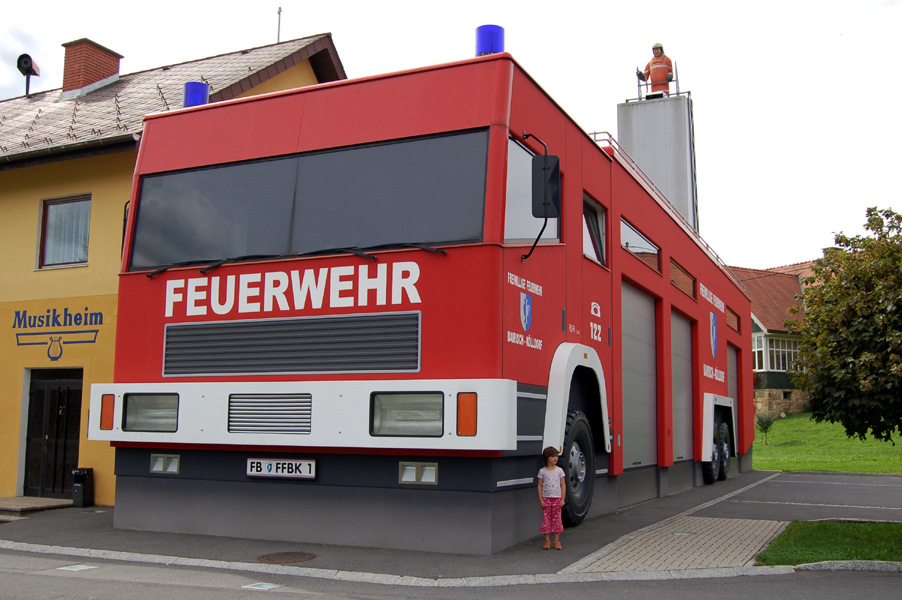 The Feuerwehrhaus (Rüsthaus, Auxiliary fire brigade building) in Bairisch Kölldorf, Styria, Austria, build 2000 - 2002; The girl in front is 120 cm tall.